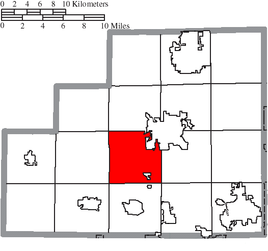 Map of the municipal and township boundaries of Medina County, Ohio, United States, as of the 2000 census, with the location of Lafayette Township highlighted. Township borders are shown only in unincorporated areas in order to differentiate incorporated and unincorporated areas more clearly.